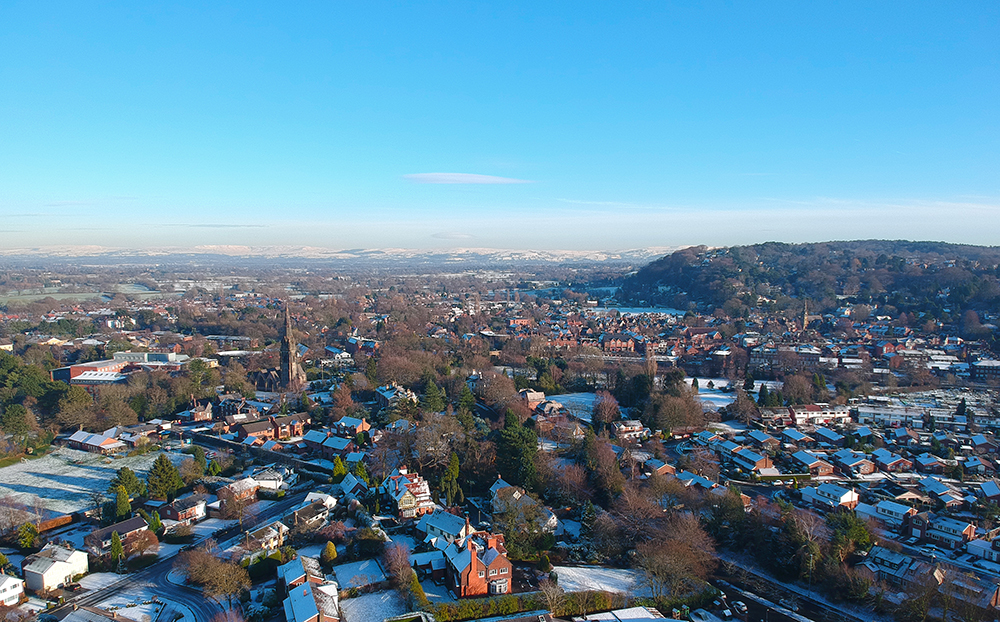 Aerial photograph of Alderley Edge taken in December 2017, showing St. Philips Church (centre left) and the Edge sandstone escarpment (right).